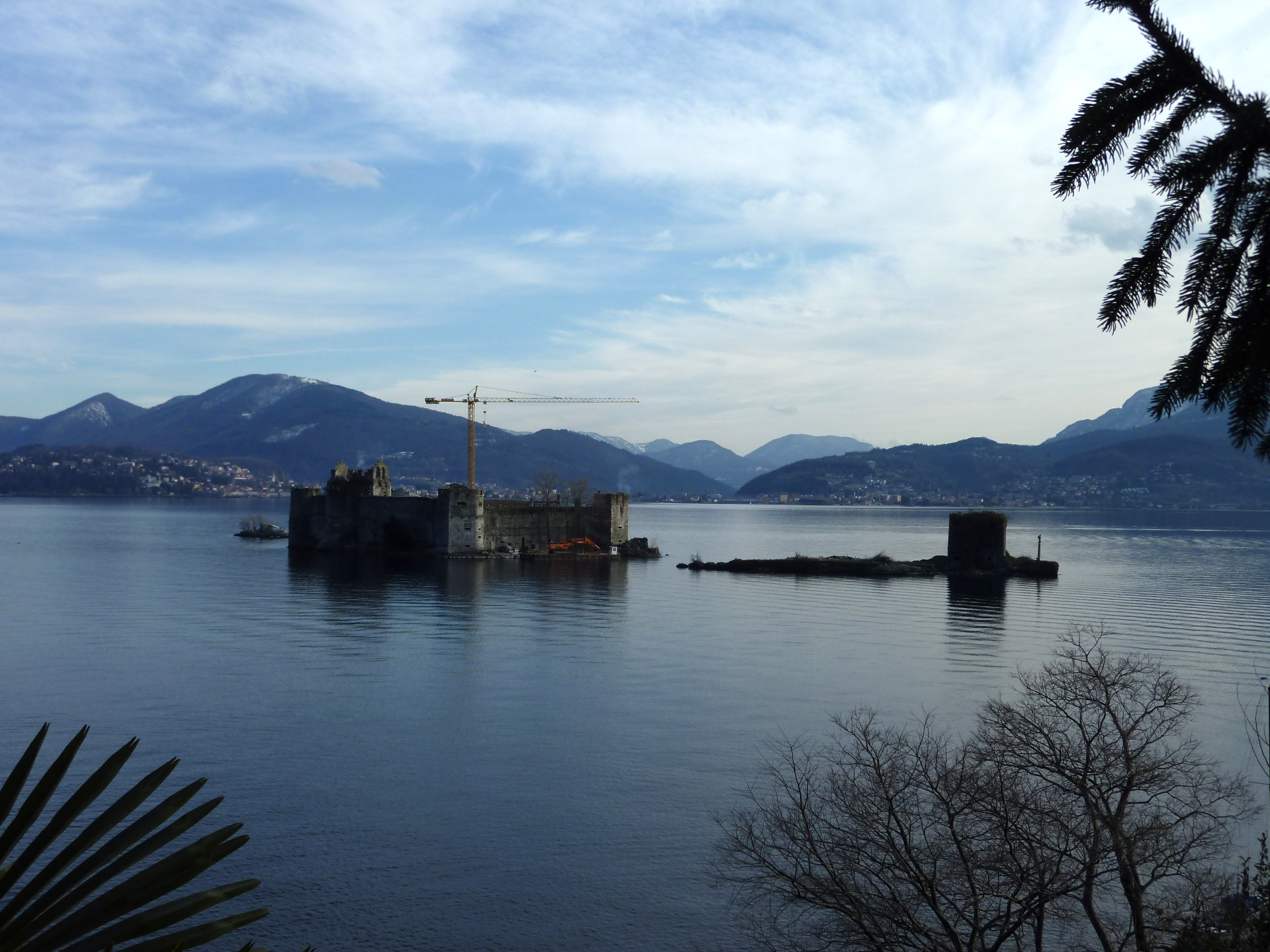 Island of Cannero; Lage Maggiore